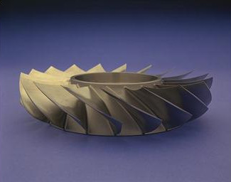 First compressor integrally bladed rotor from ASCT Allison Gas Turbine engine